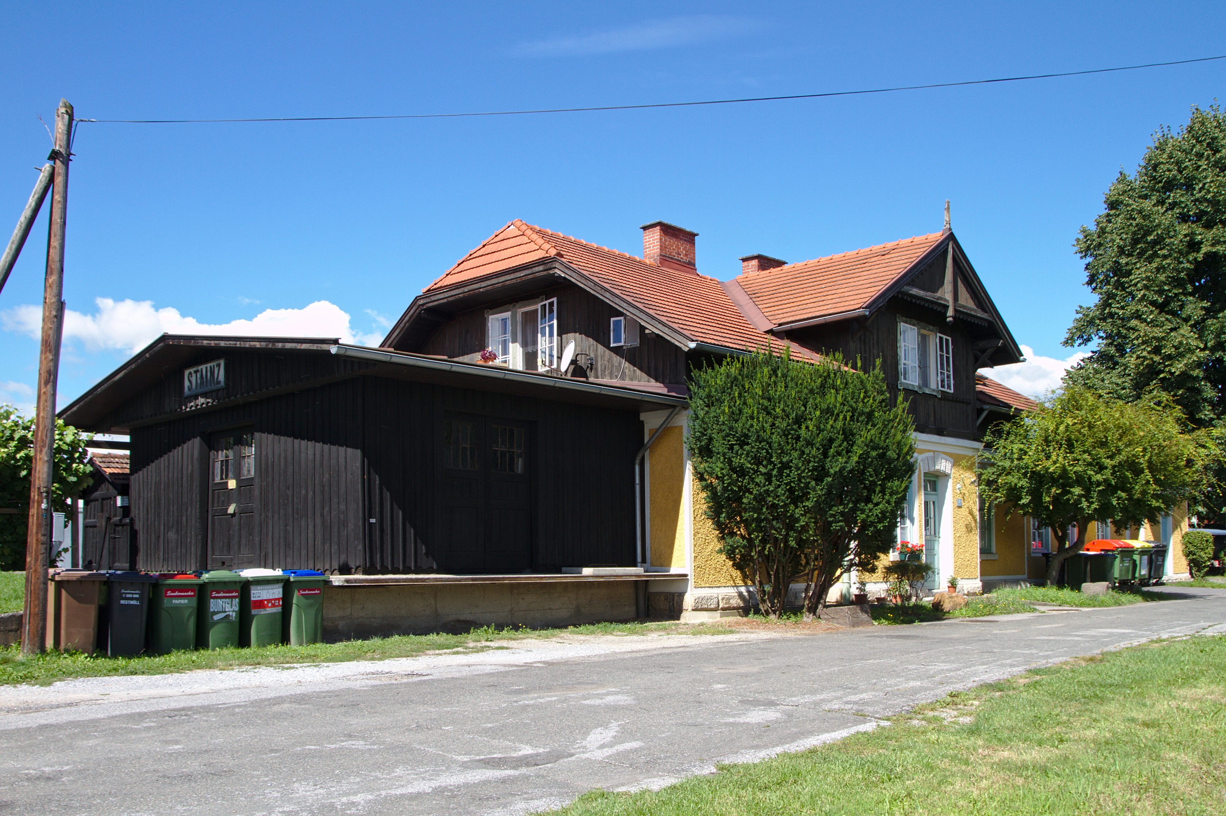 Stainz station, roadside view of station building with goods shed.